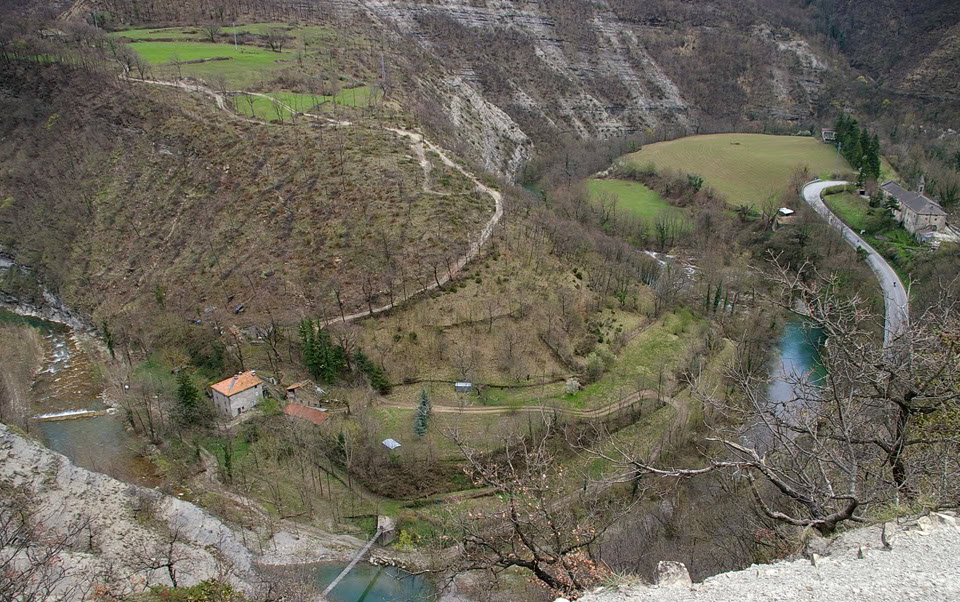 A view of the Santerno valley.